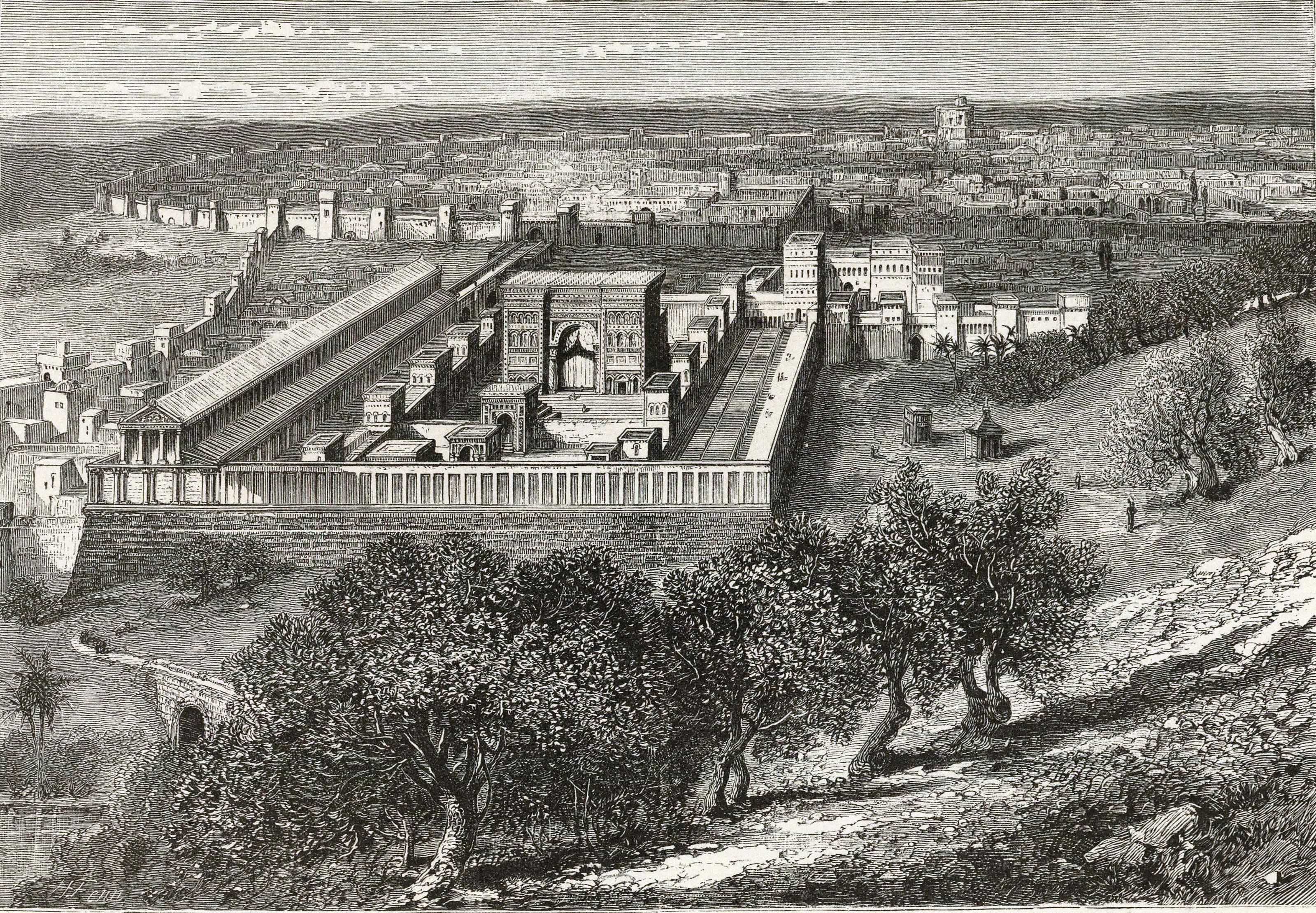 Fergusson's Restoration. From II. W. Beecher's "Life of Jesus the Christ." By permission of J.B Ford Co. Publishers.